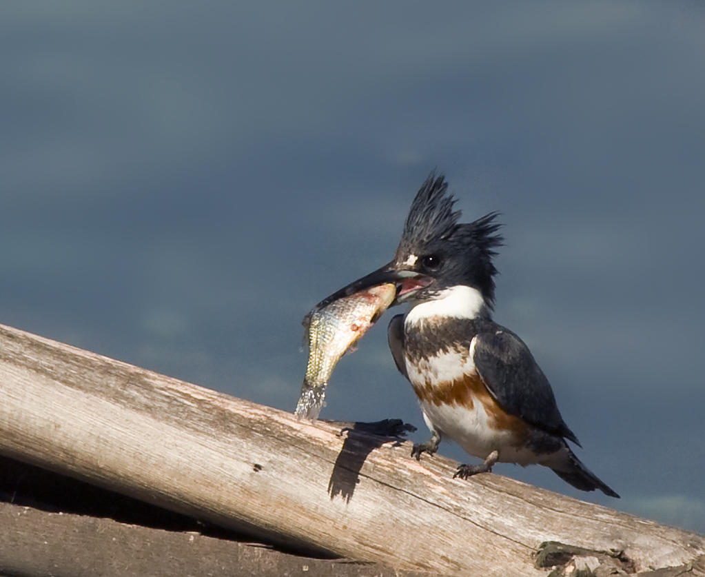 Belted Kingfisher (female) with a fish in its beak